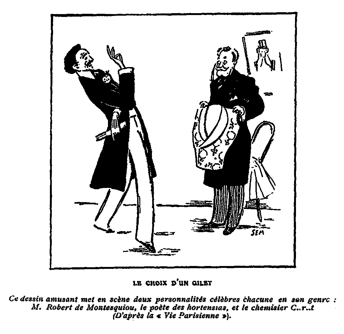 Caricature of Robert de Montesquiou at Charvet published in "Je sais tout", August 1906, p. 566 Caption: "Le choix d'un gilet: Ce dessin amusant met en scène deux personnalités célèbres chacune en son genre: M. Robert de Montesquiou, le poète des hortensias, et le chemisier C..r..t (D'après "La Vie parisienne")"